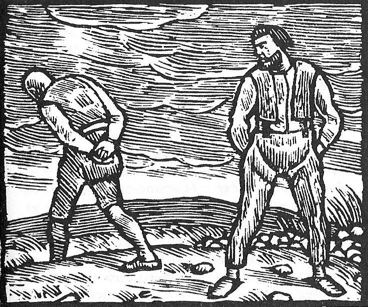 The Land Dispute between Manz and Marti